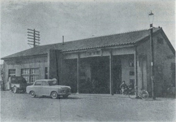 Japanese National Railways Hatsushima Station (now belongs to West Japan Railway)